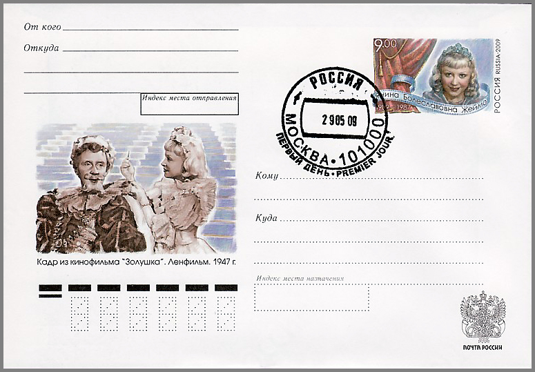 Russia, 2009. Envelope with commemorative stamp (EWCS) № 190. 100th birth anniversary Yanina Zheimo, the actress. Envelope designer A. Batov. First day of issue postmark 05/29/2009 Moscow, Post Office 101000.